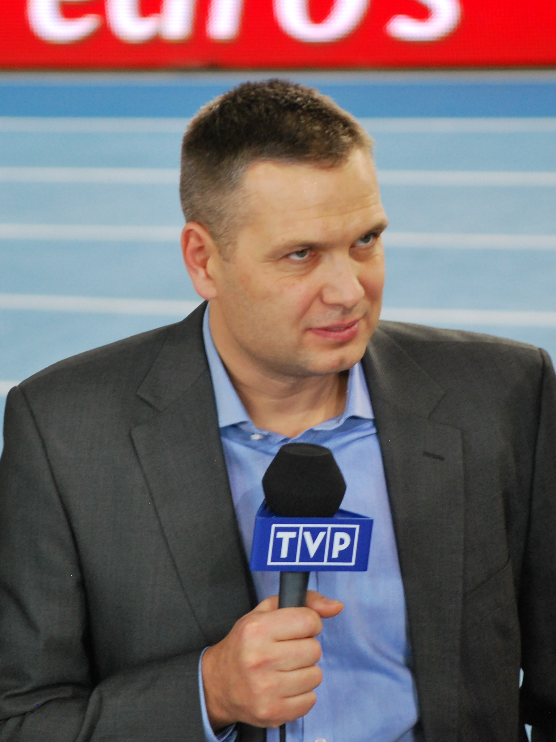 Pedros Cup 2015 Łódź, Sebastian Chmara, former decathlete, director Pedro's Cup meeting from Poland